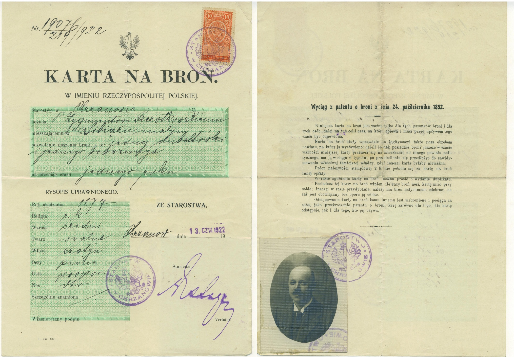 Gun certificate (scan of front and back side of the document) for Polish citizien, issued 1922